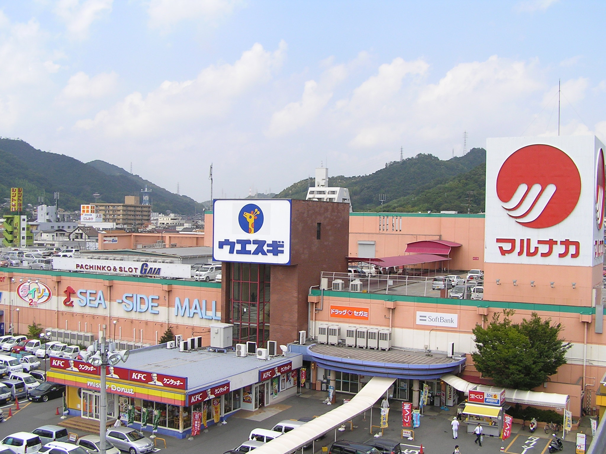 KASAOKA SEA-SIDE MALL Shopping Center